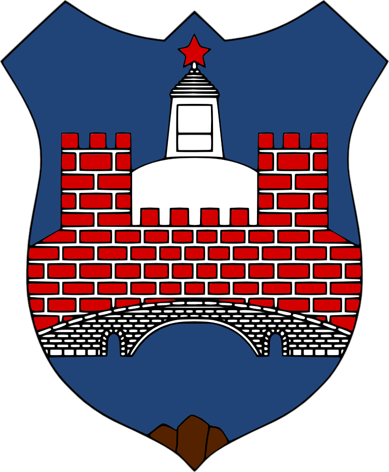 Coat of arms of Podgorica (Titograd). In use from 1970 to 2006.